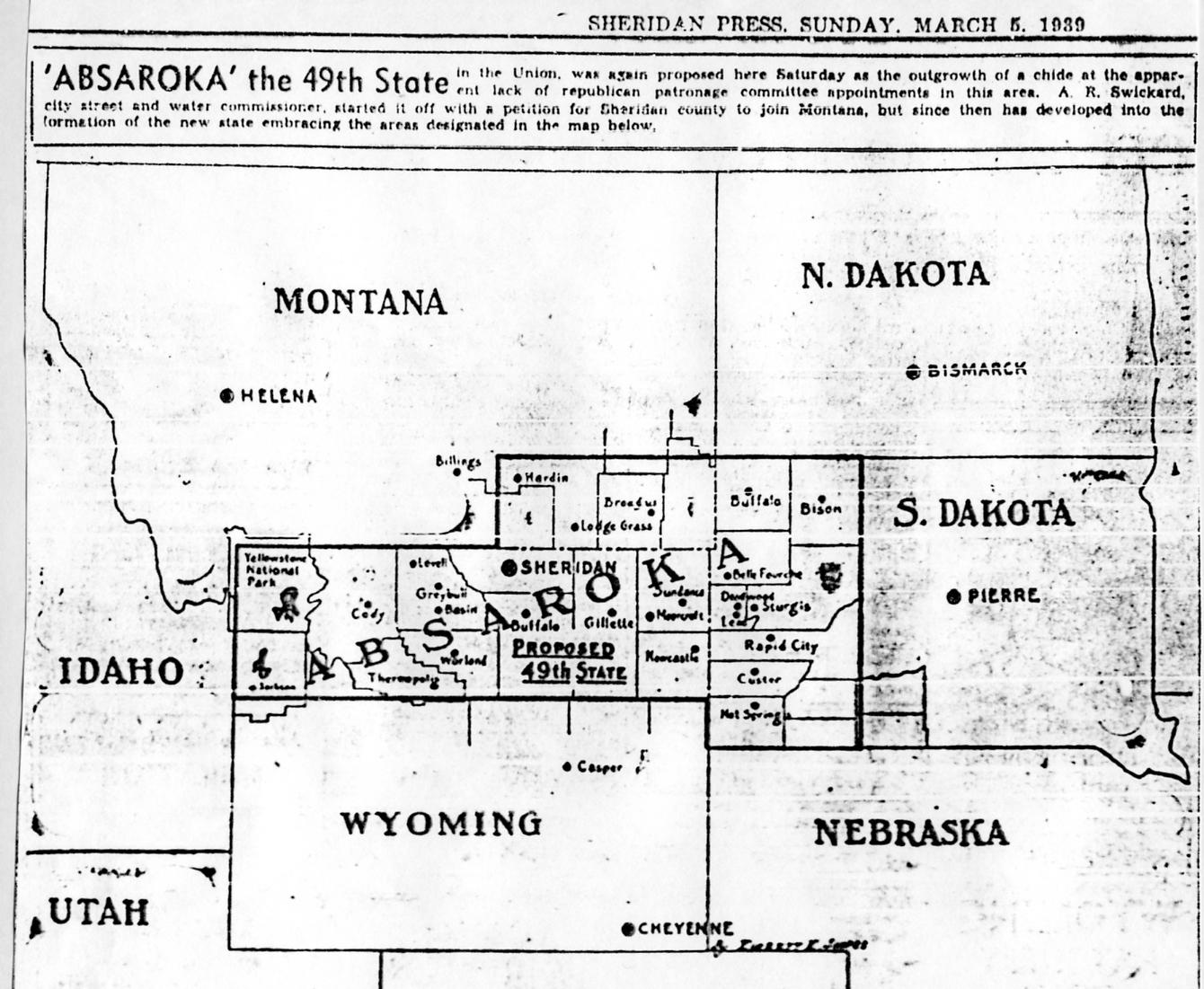 A map of the proposed US state of Absaroka from the newspaper Sheridan Press, March 5, 1939